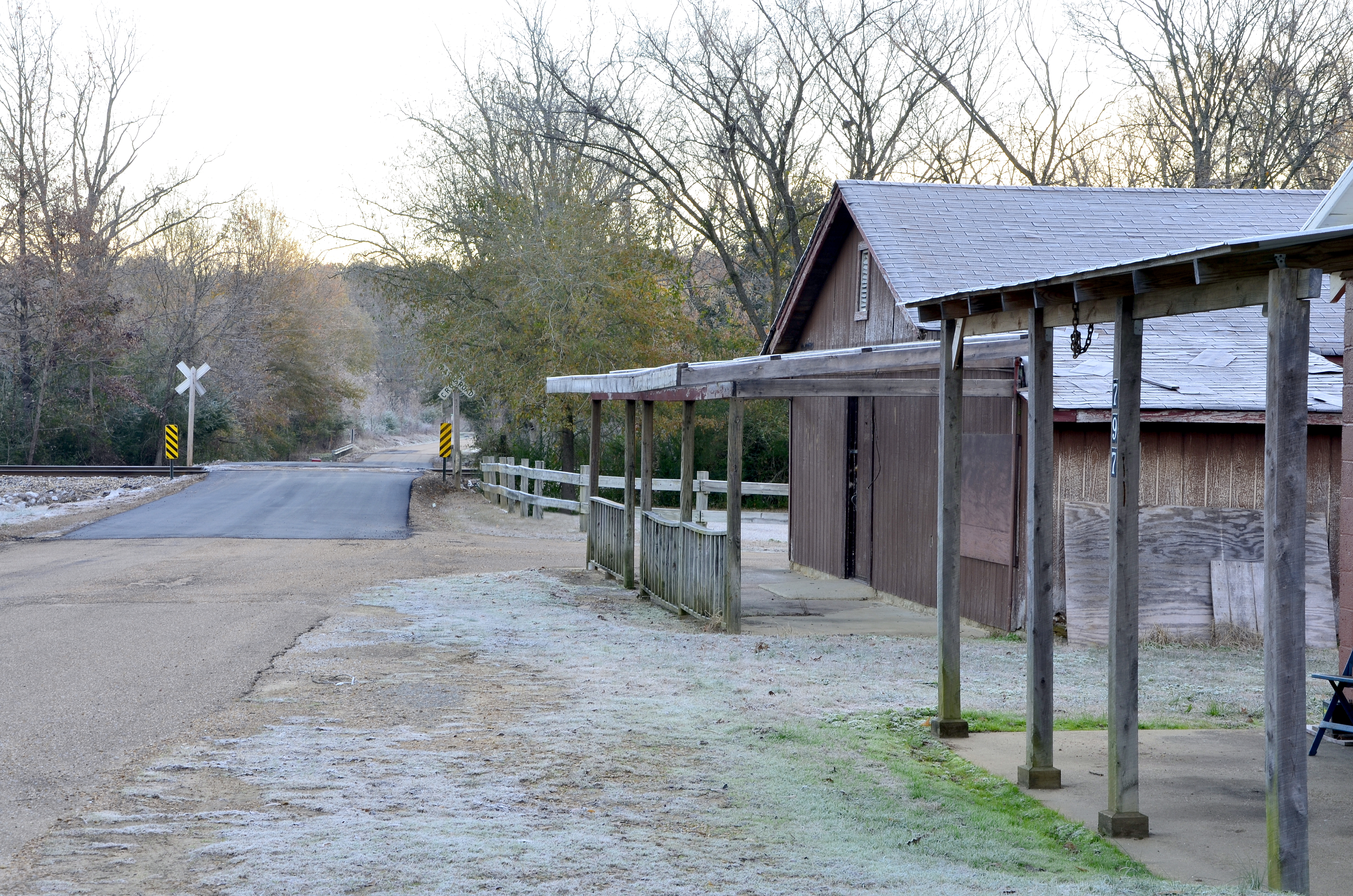 Hardy Road in Hardy, Mississippi.